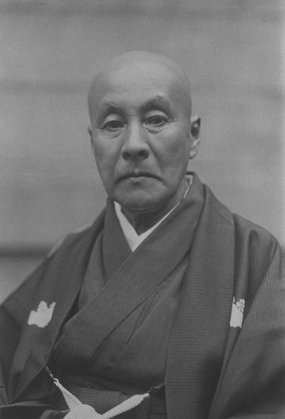 Photograph of Kawamura Kiyoo in 1929, the celebration of his longevity that is celebrated on his seventy seventh birthday.